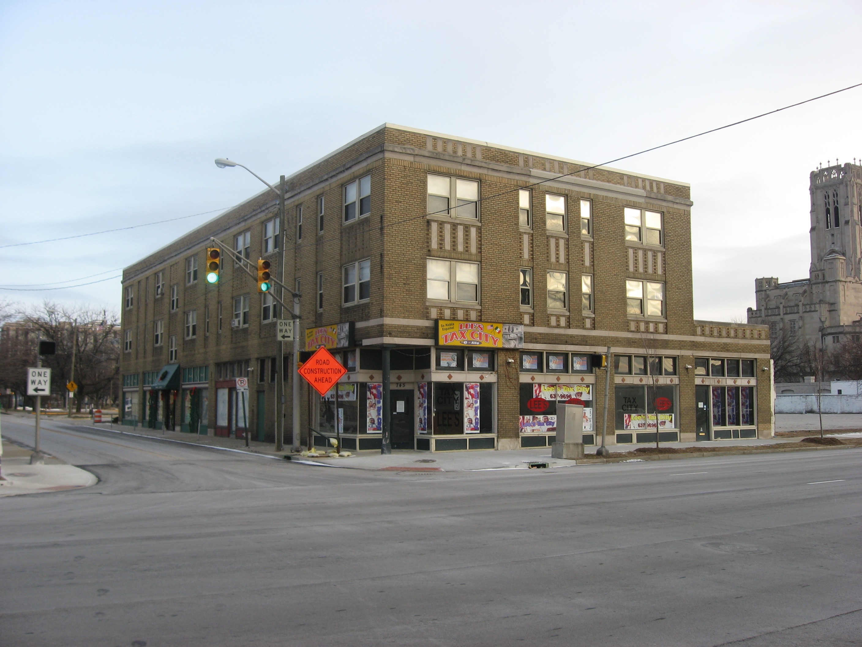 Front of The Alameda, located at 37 W. St. Clair Street in Indianapolis, Indiana, United States. Built in 1920, it is listed on the National Register of Historic Places as one of the "Apartments and Flats of Downtown Indianapolis Thematic Resources".